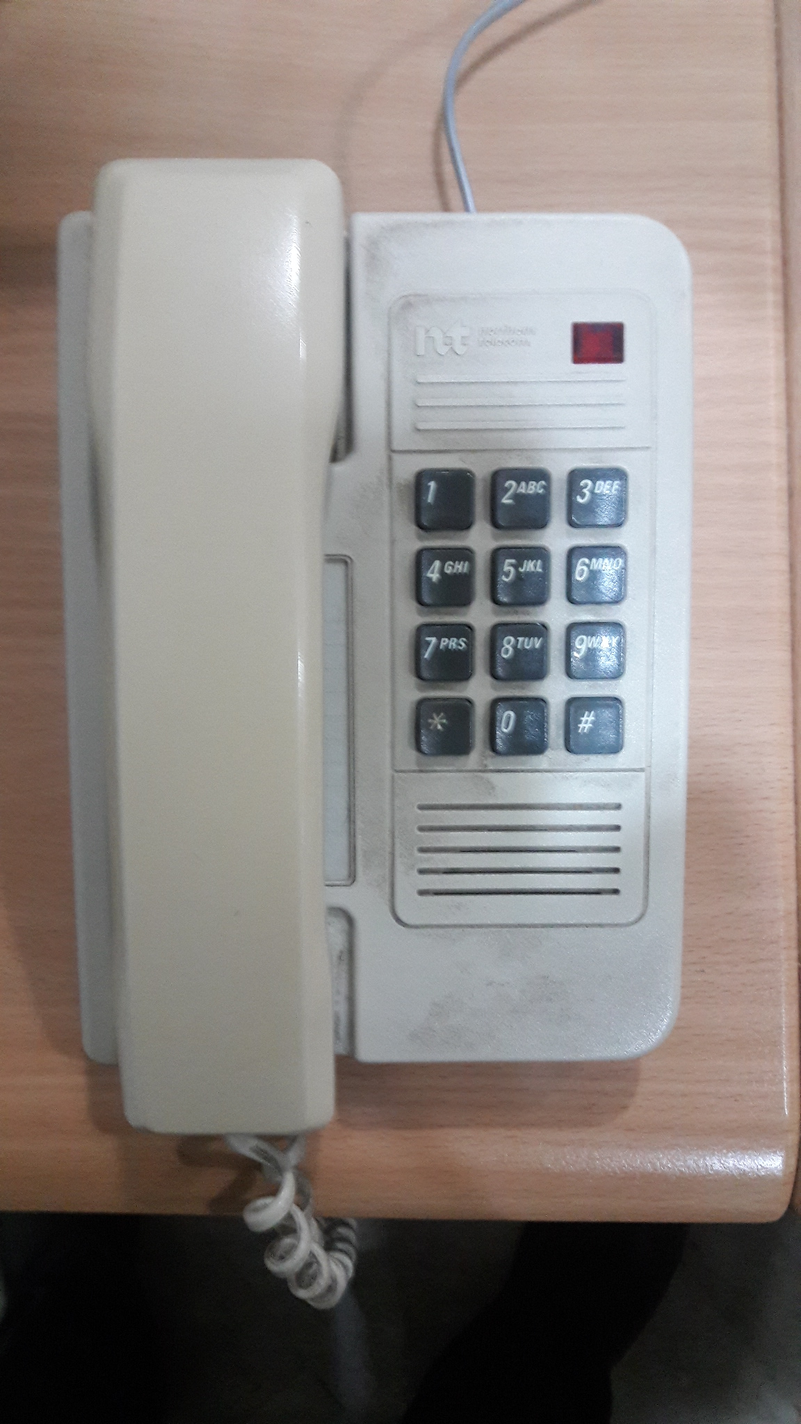 Telephone